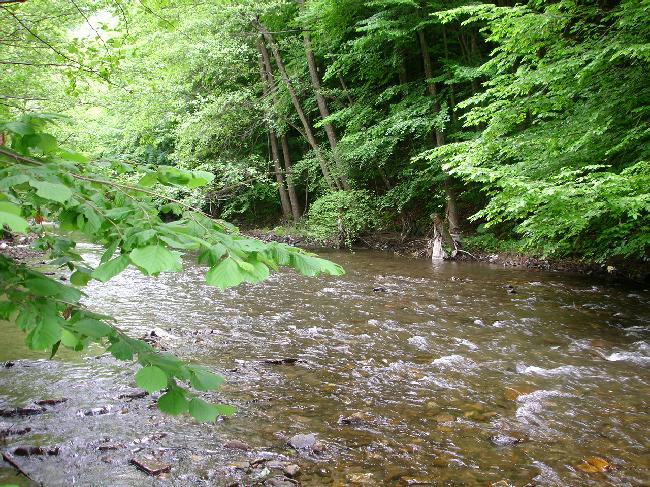 Nadrag River, Nadrag, Timis, Romania